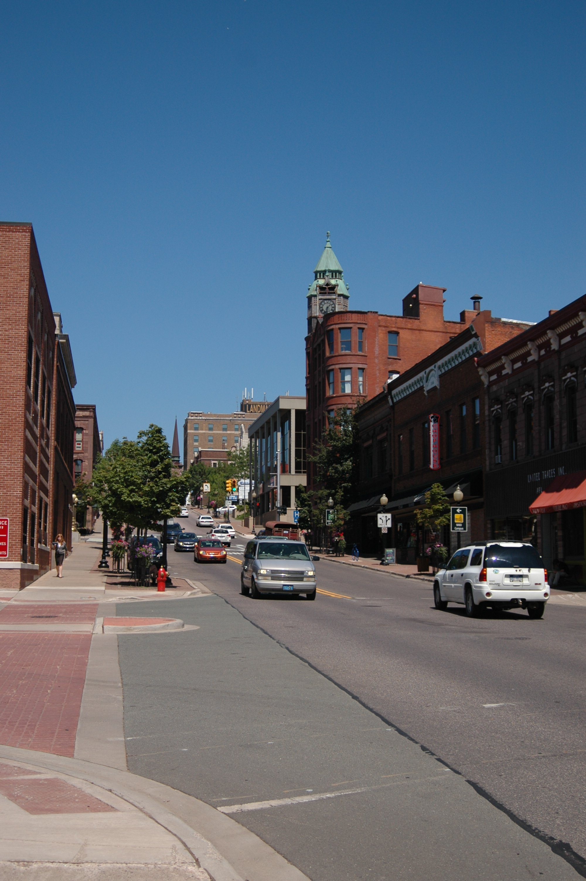 Front Street downtown Marquette, Michigan, United States